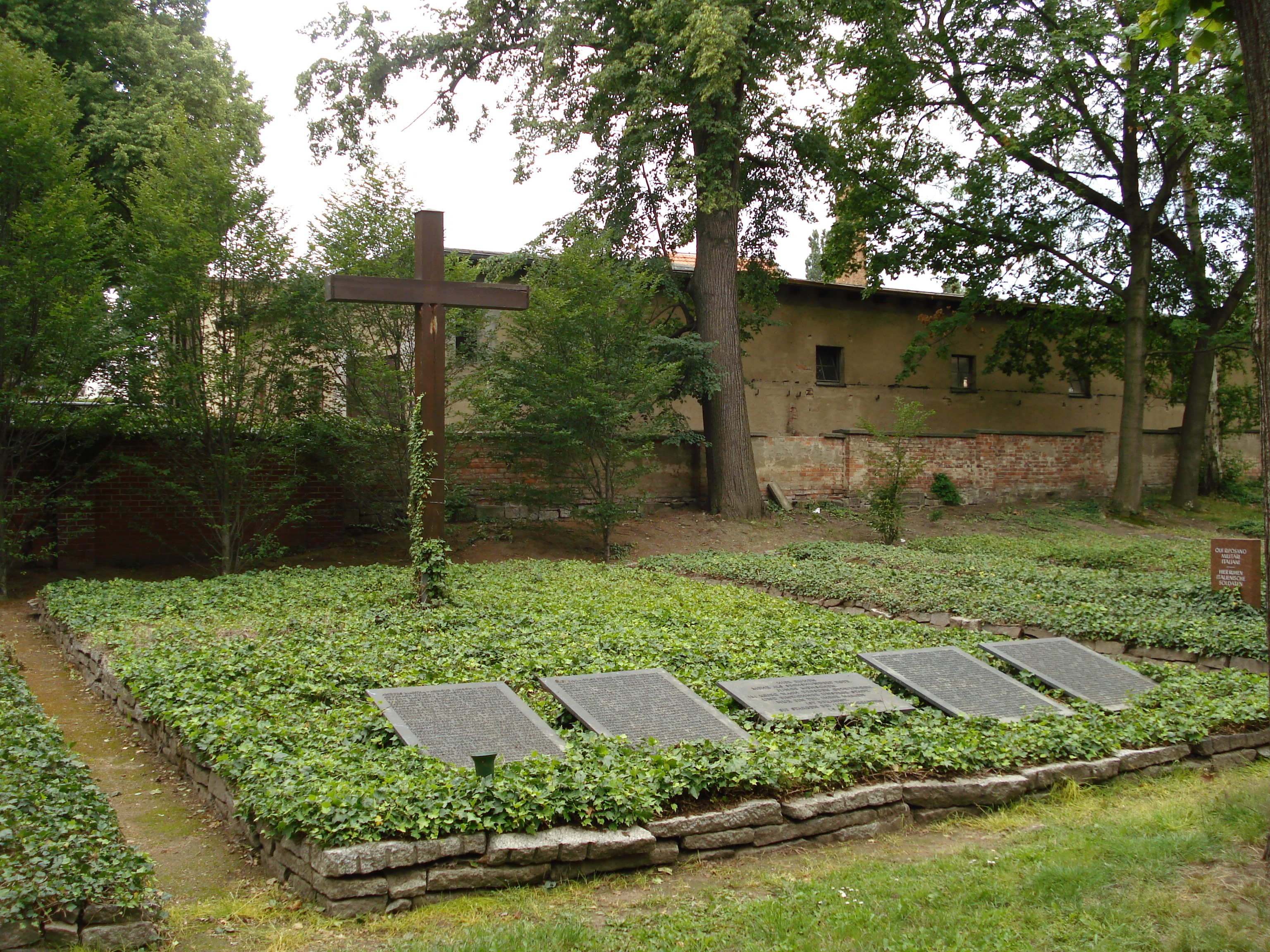 The Neue Annenfriedhof of Dresden.